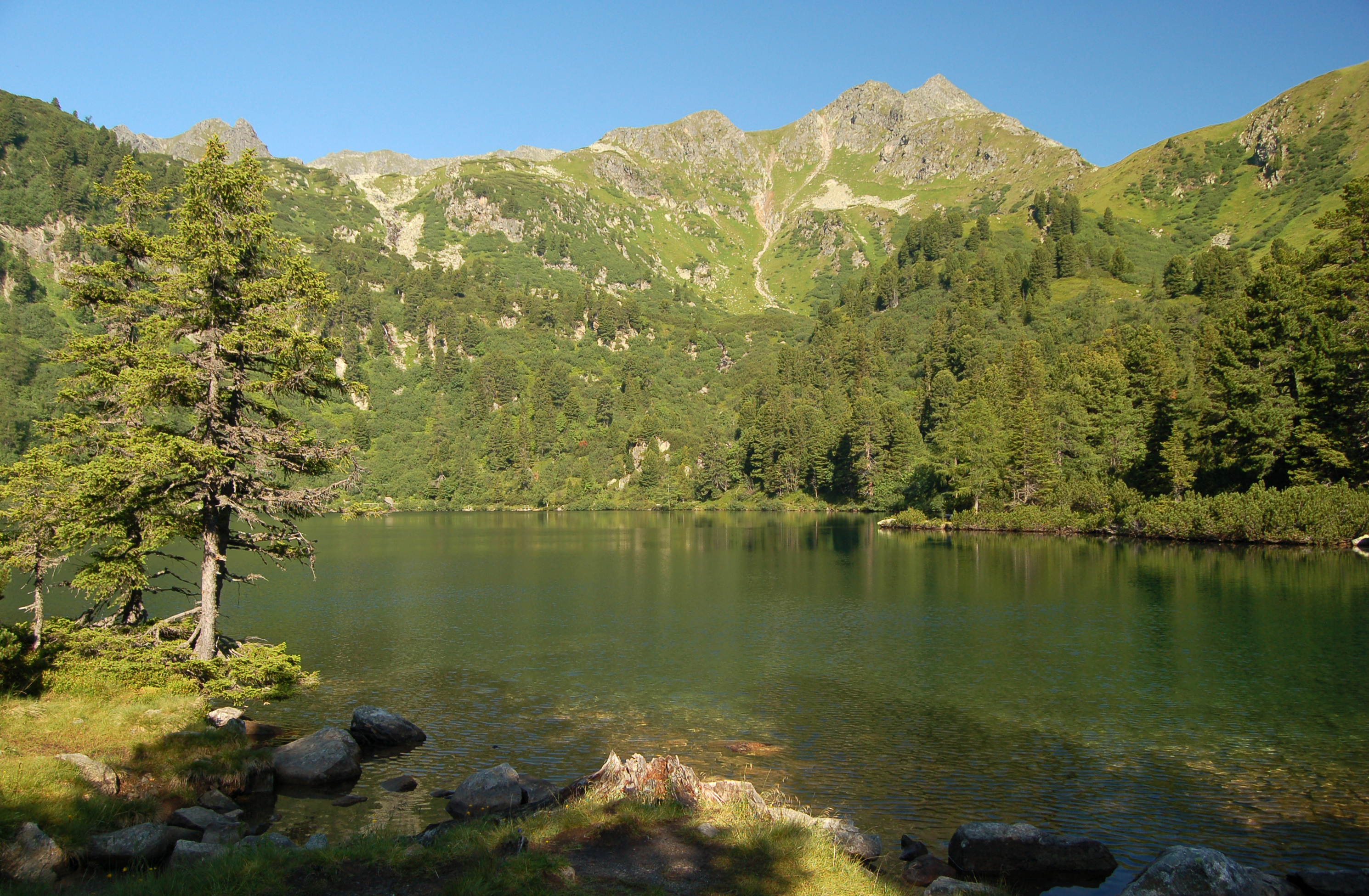 View across Großer Scheibelsee heading west, towards Großer Bösenstein.